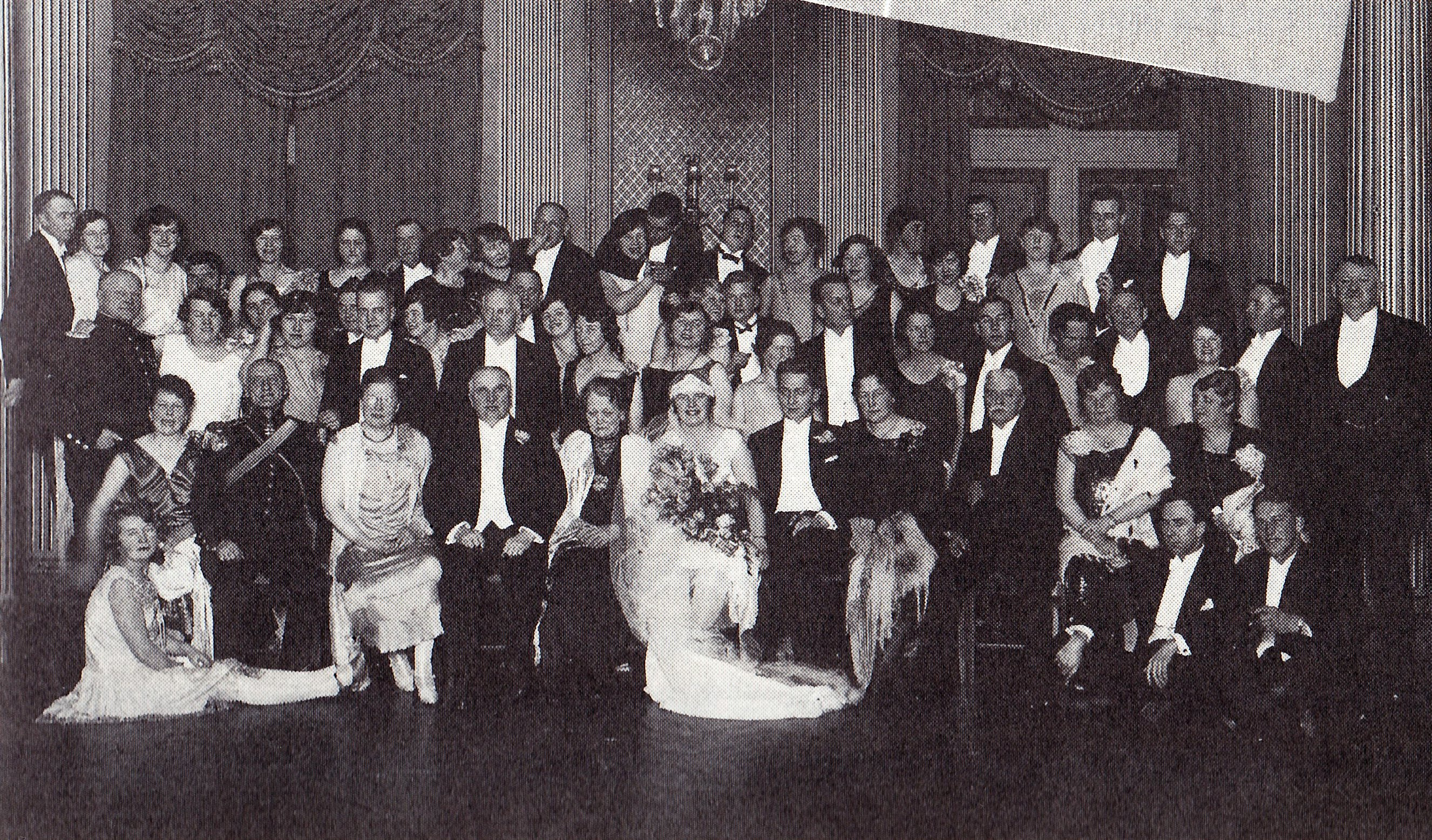 Lilly and Trygve Gulbranssen at their wedding reception at Hotel Bristol in Oslo.